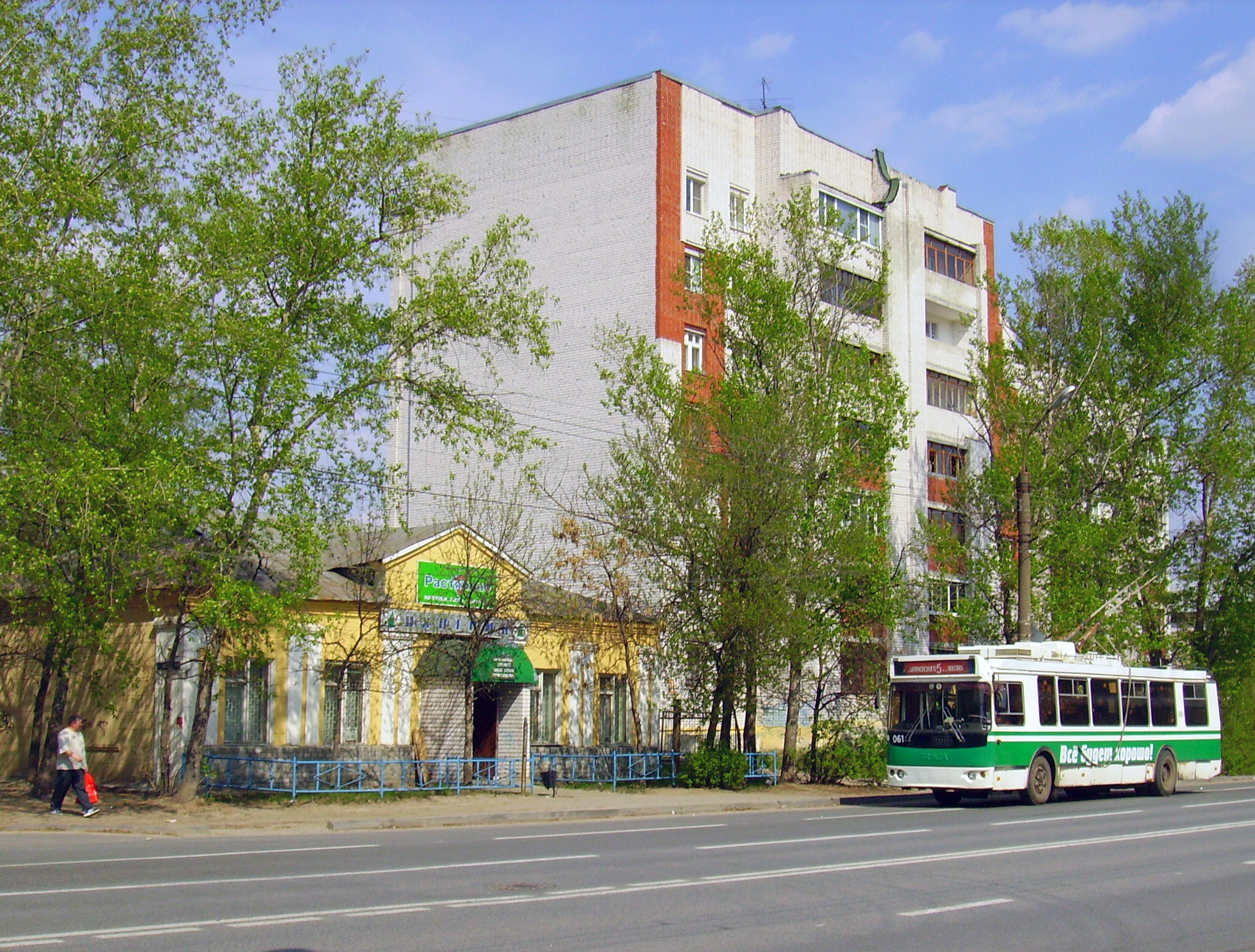 Corner of Chapayev & Gastello Streets